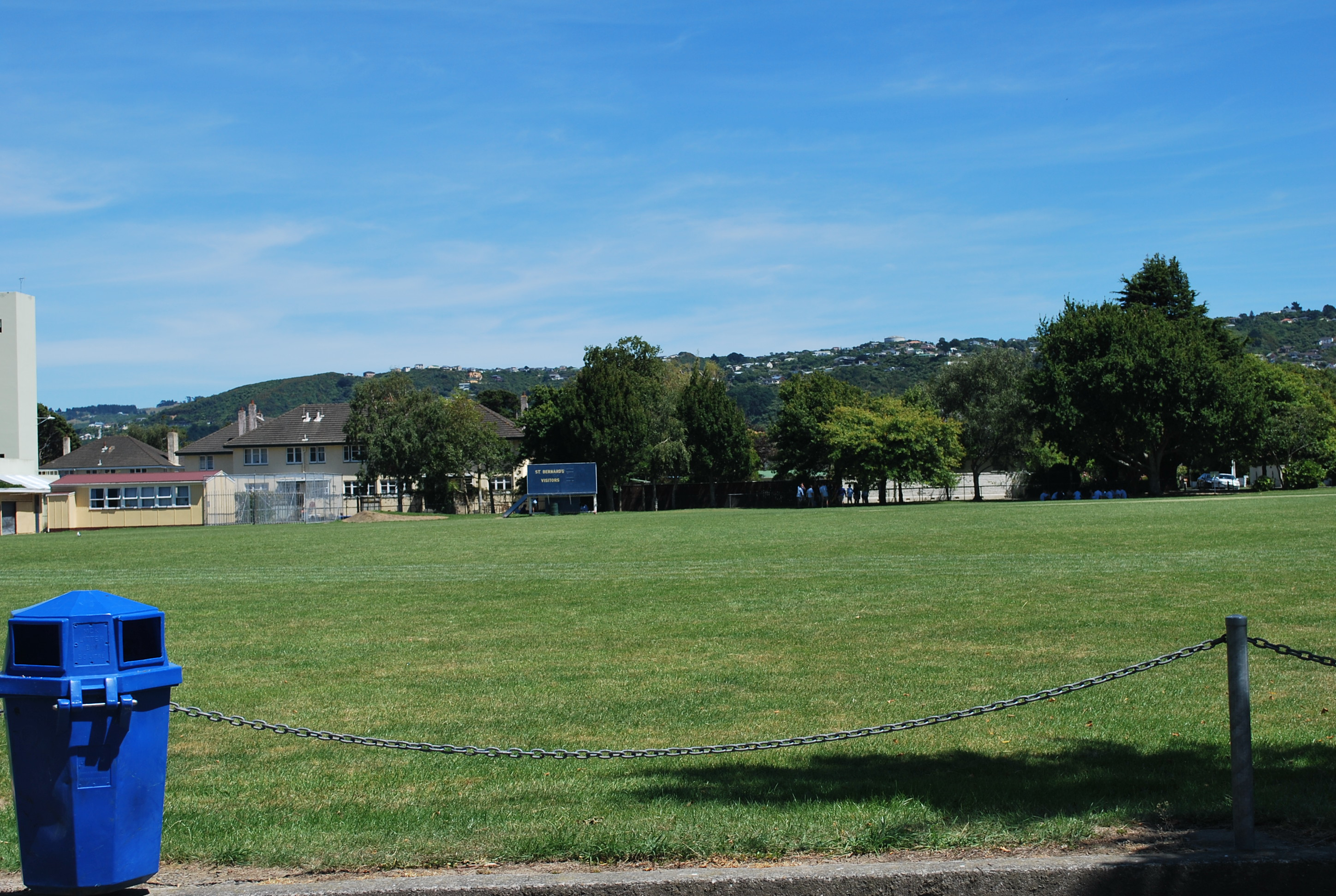 St. Bernard's College, Lower Hutt